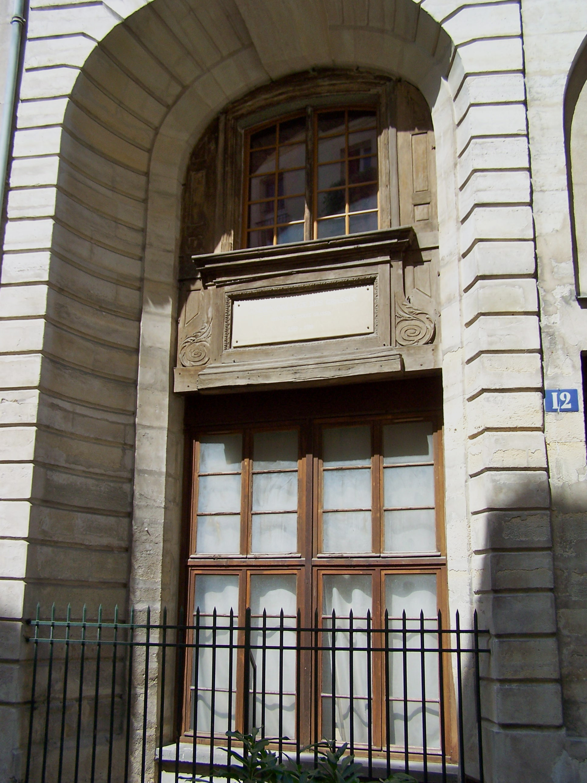 Vue du 12 rue Laplace à Paris, ancien Collège des Grassins